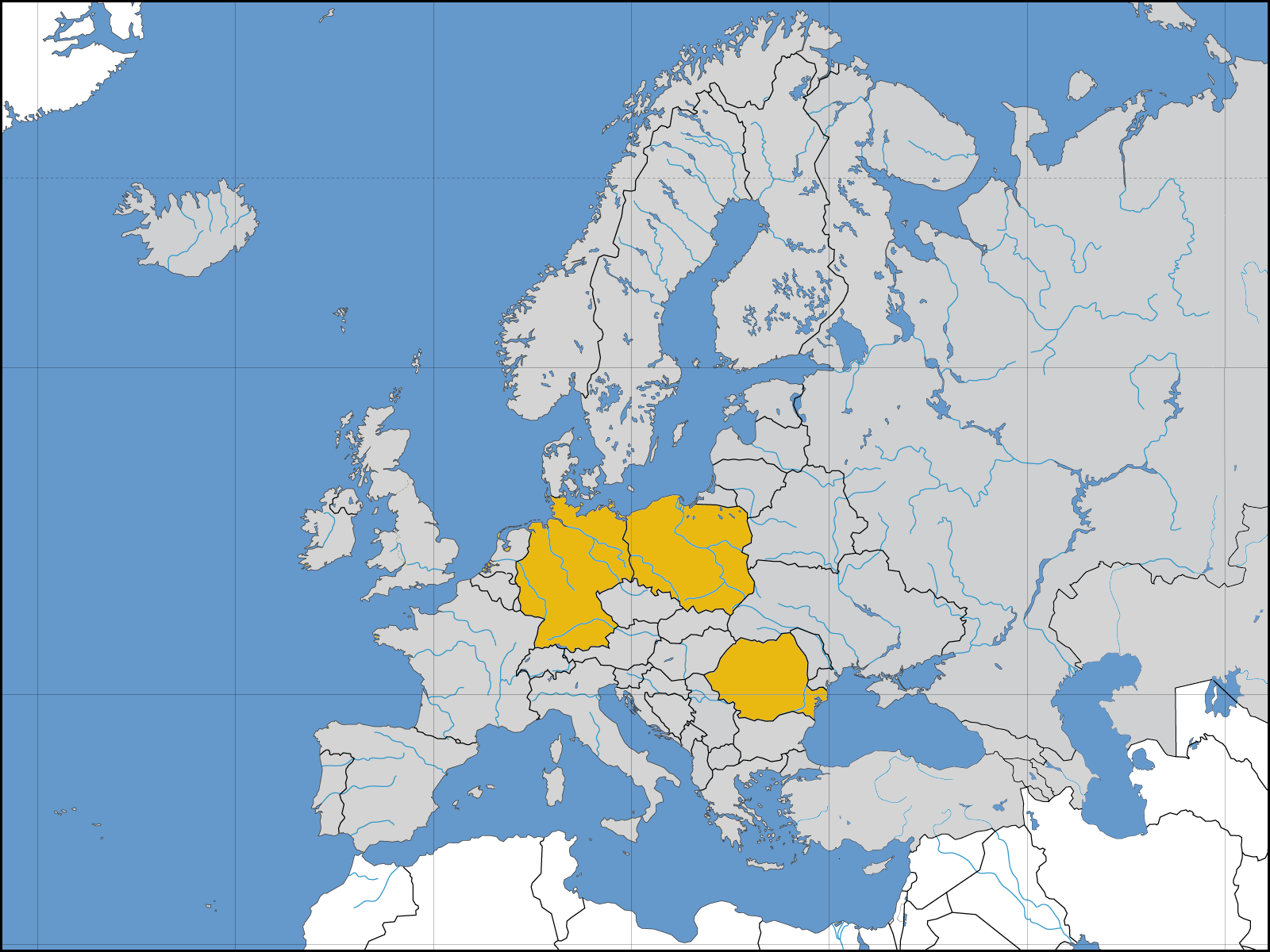 Selgros international locations